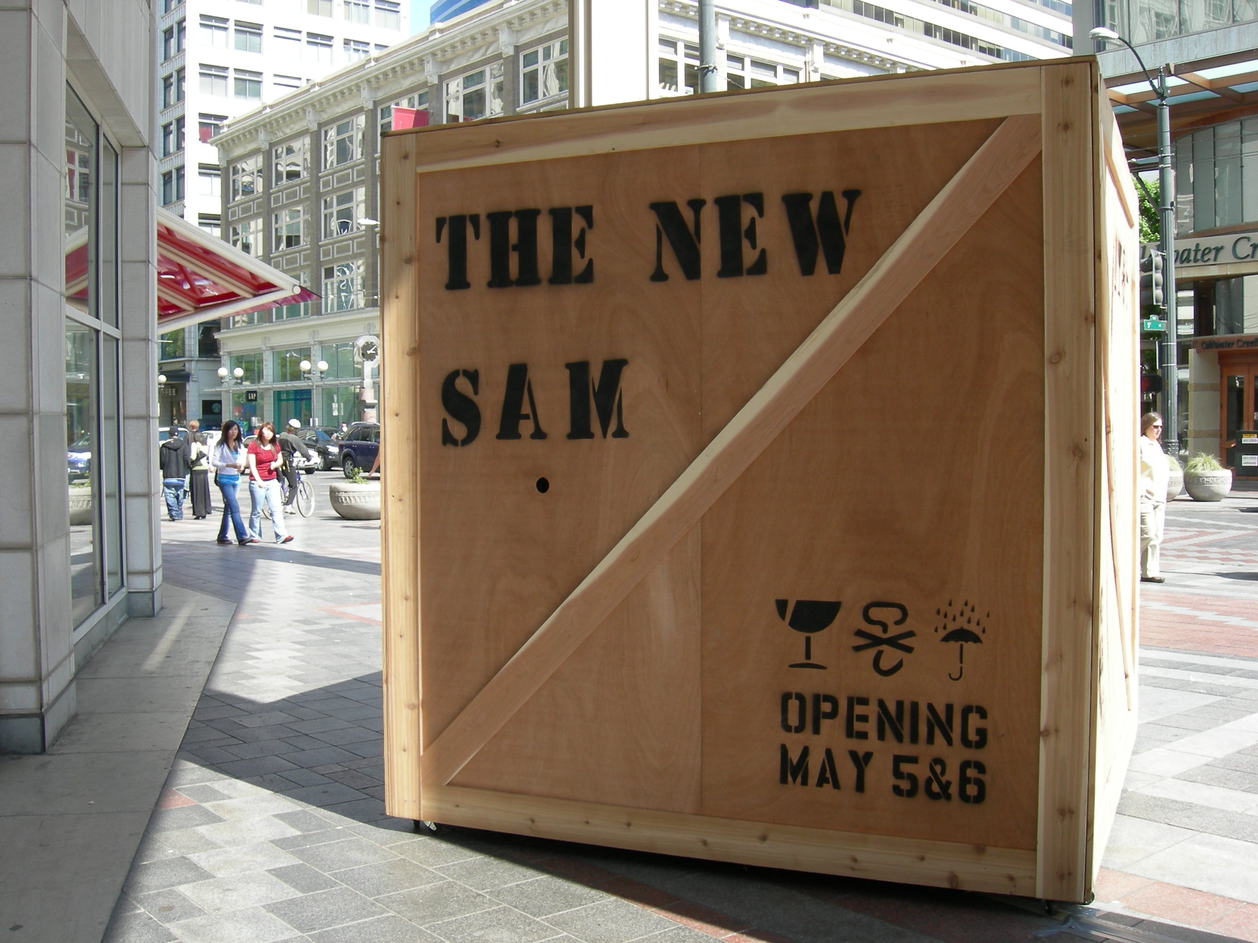 A crate functions as a an ad for the reopening of Seattle Art Museum. Westlake Mall, Seattle, Seattle, Washington.